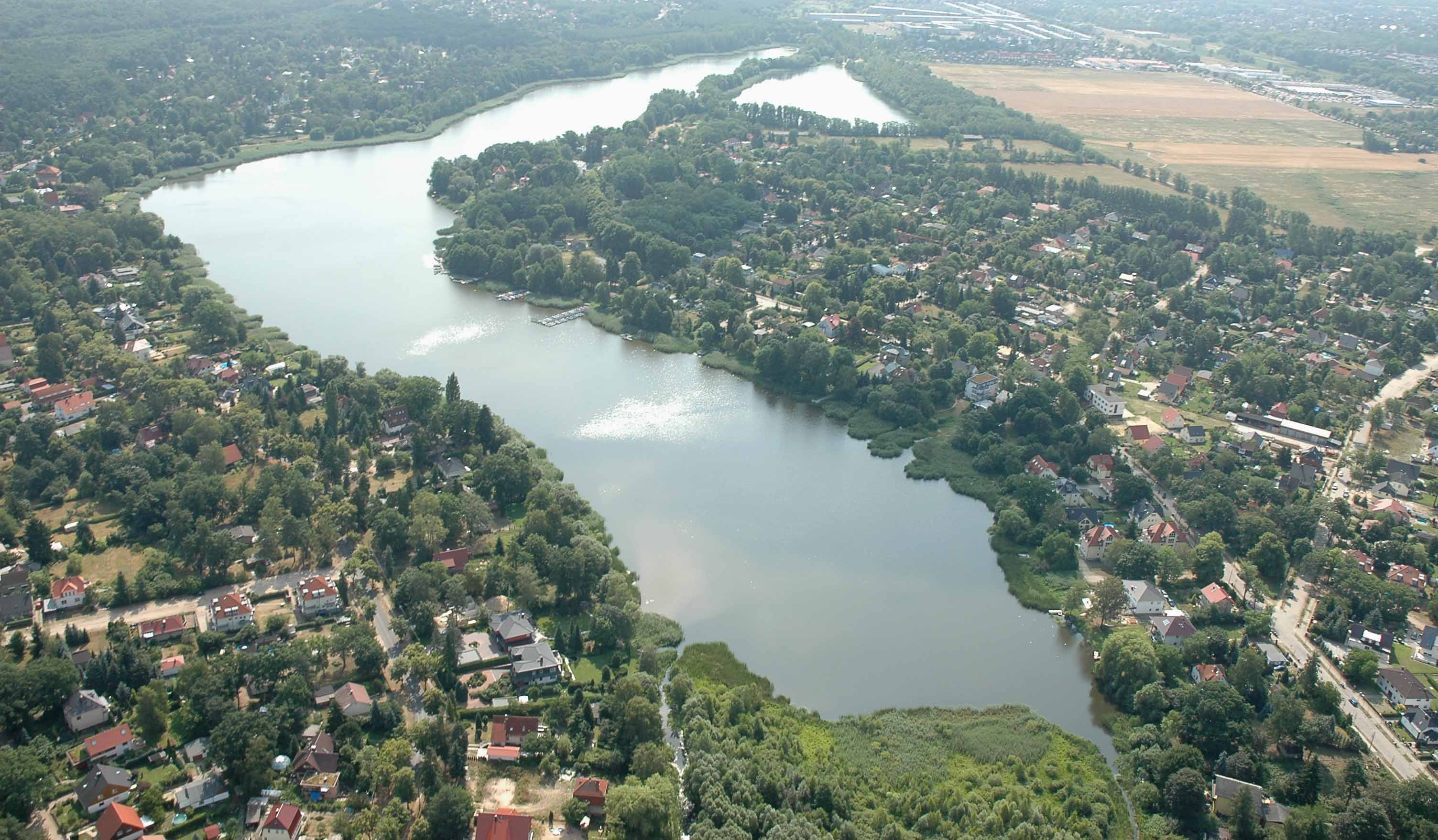 Aerial image of the lake Falkenhagener See in Falkensee, view towards southeast.